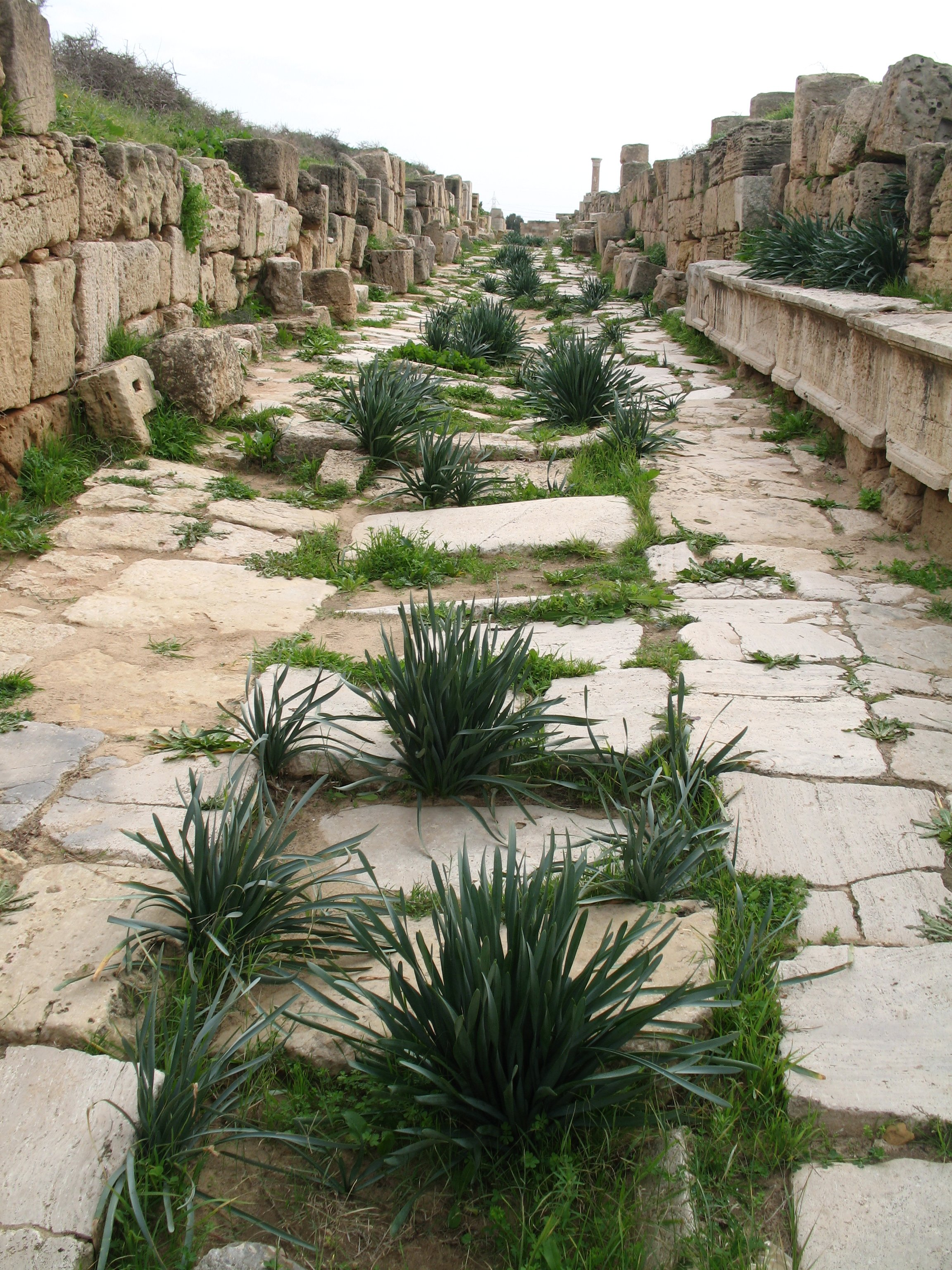 Libya, Leptis Magna